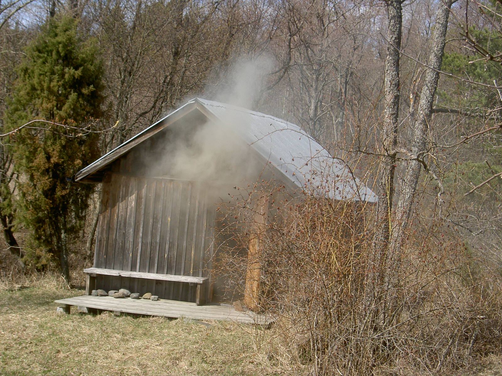 A finnish smoke-saune while heating up in the Uusikaupunki region archipelago.